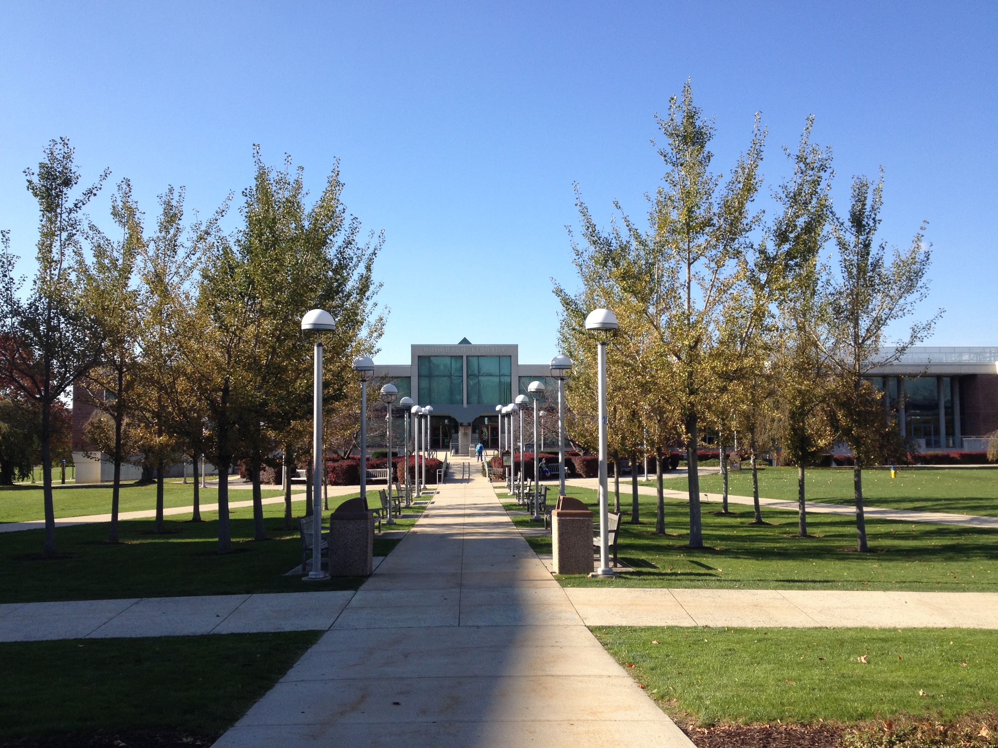 The Rohrbach Library at Kutztown University of Pennsylvania